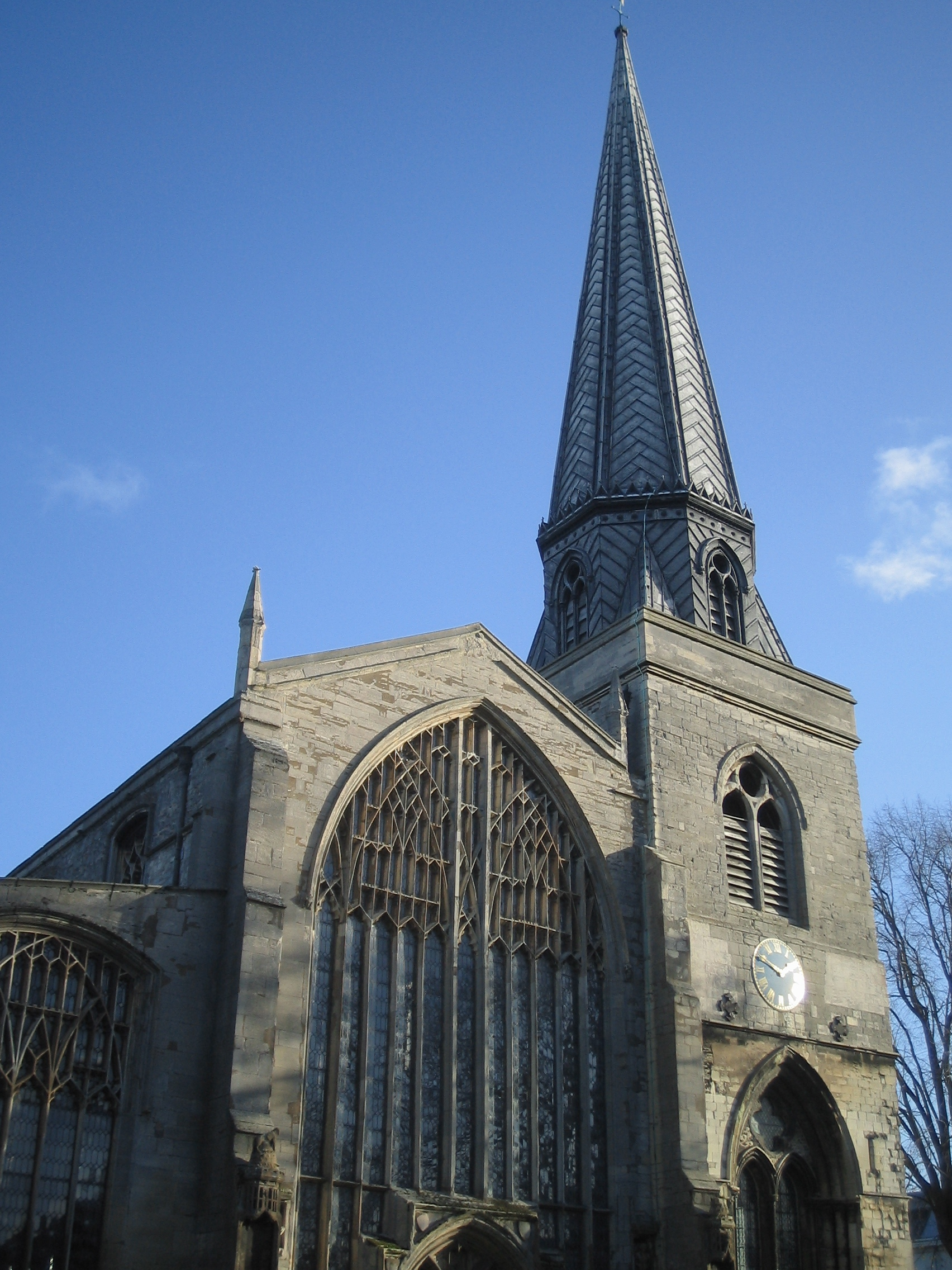 St. Nicholas's Chapel in King's Lynn. The photograph was taken by myself (Ben Dickson) on December 3rd 2006 with a Canon iXus i Digital Camera.